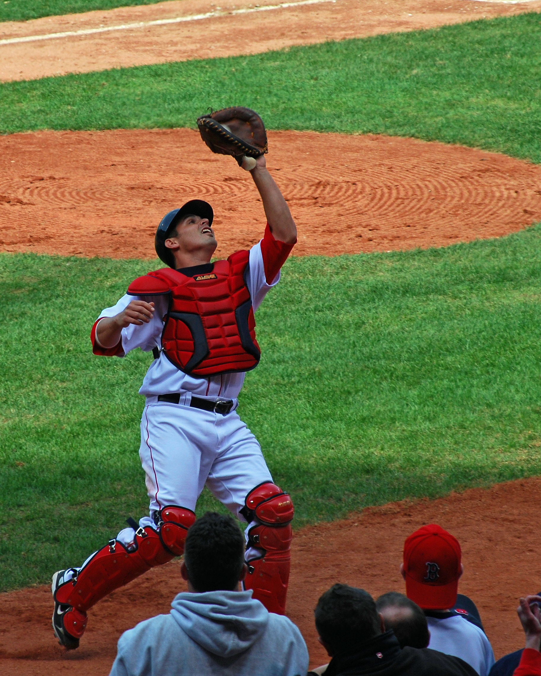 Kevin Cash